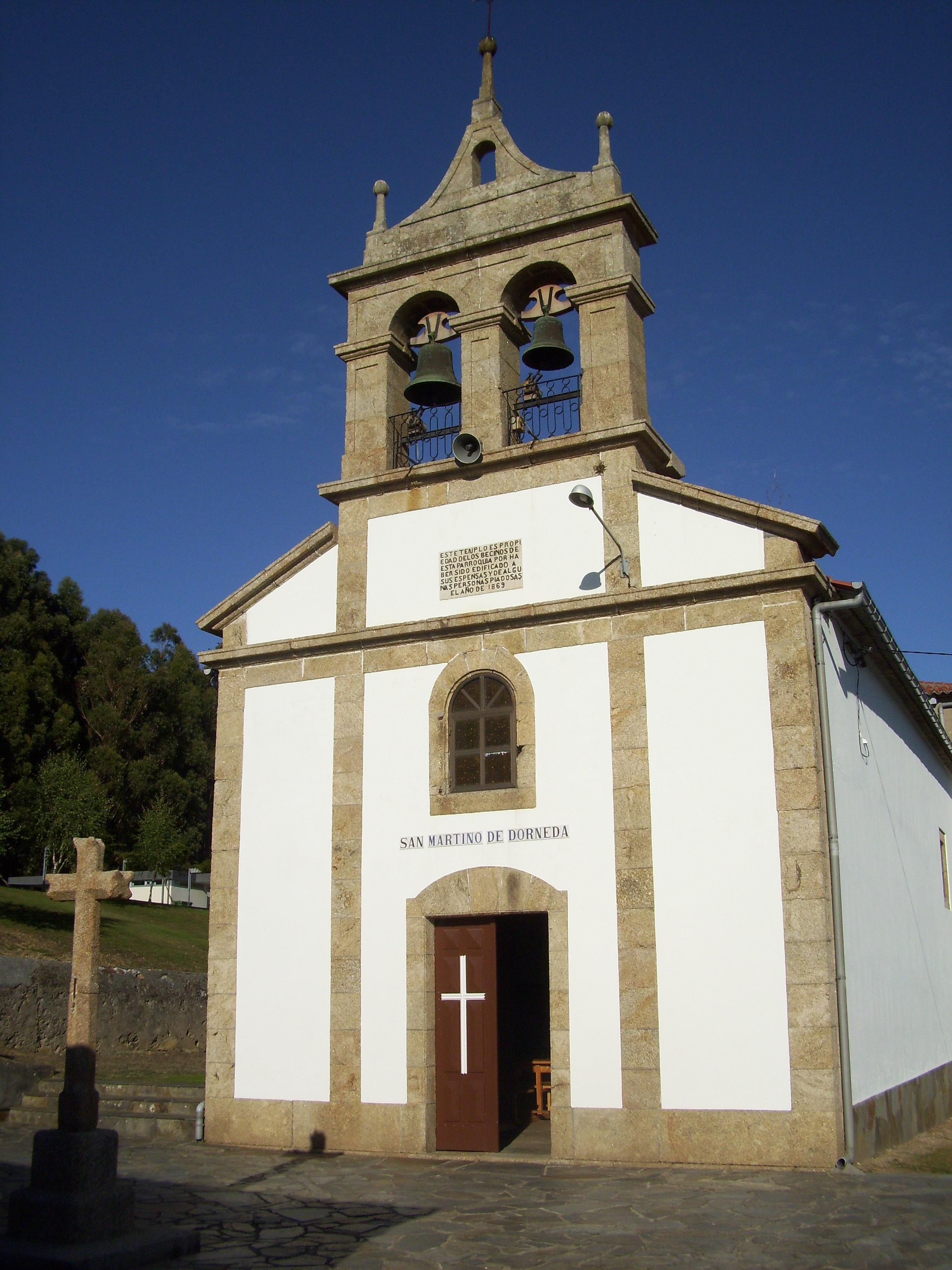 Church of the parish of San Martiño de Dorneda, in the municipality of Oleiros (Galicia, Spain).